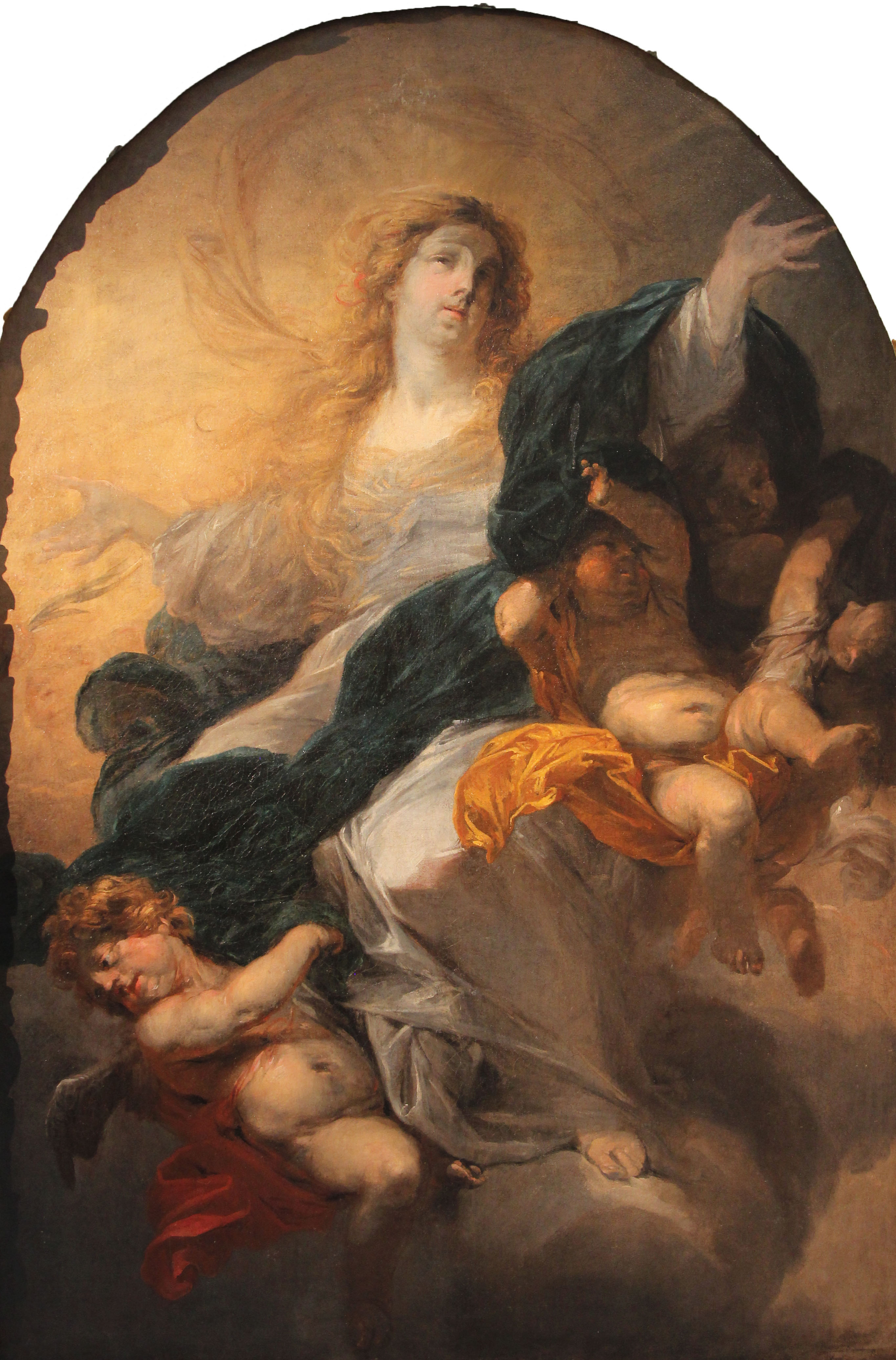 Michael Willman The Assumption of Virgin Mary (1695-1700) from St. Lawrence's church in Przychowa